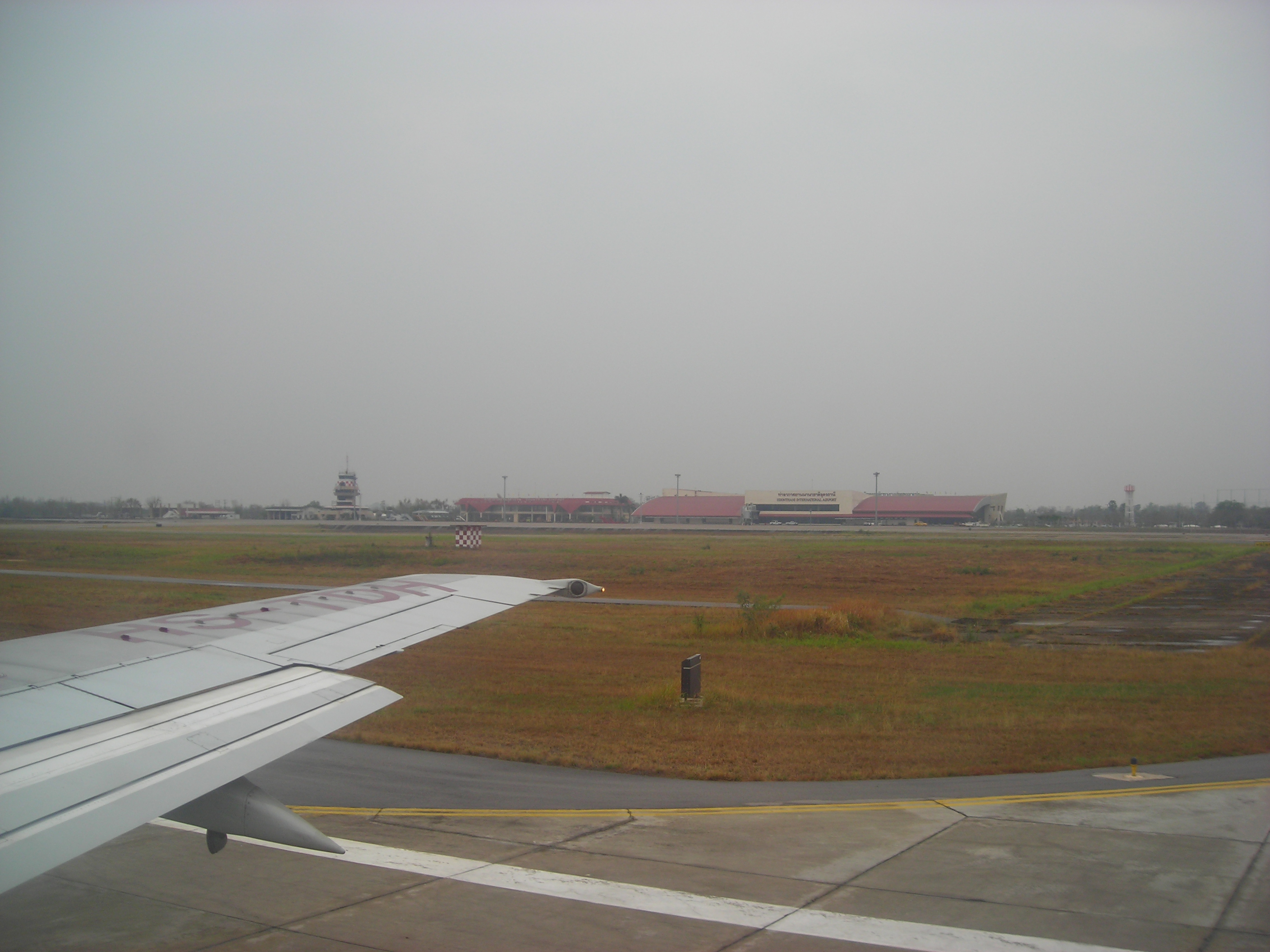 Udon Thani International Airport buildings seen from taxiway (Thailand)